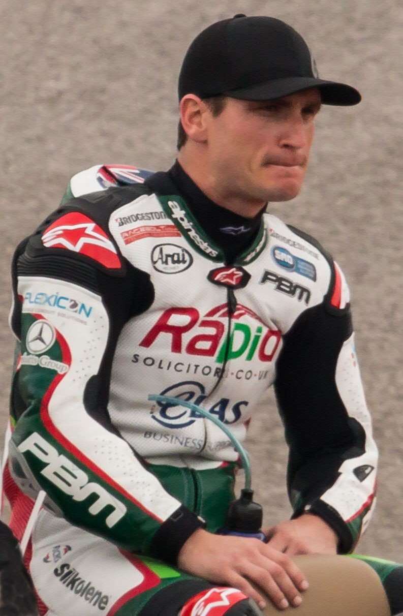 Broc Parkes wearing PBM colours waving to spectators from an open-top car at 2014 Motorcycle Grand Prix of the Americas